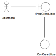 Half made comunication diagram